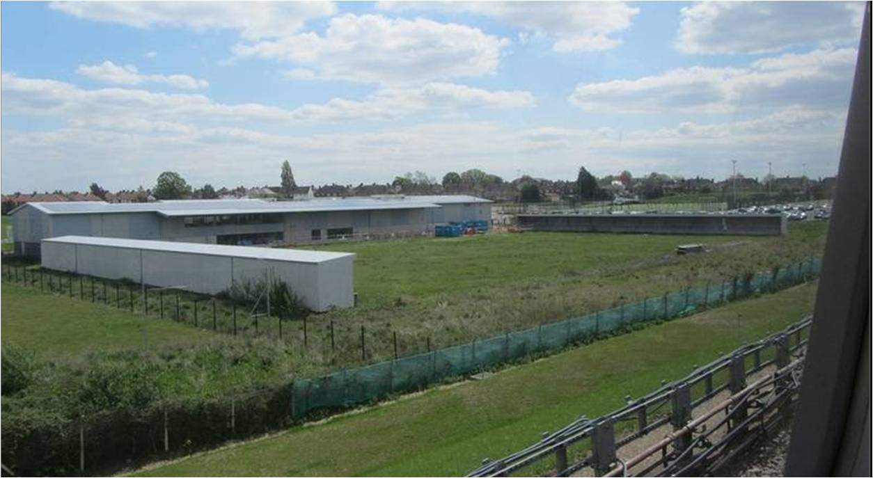 the hive future stadium of barnet fc